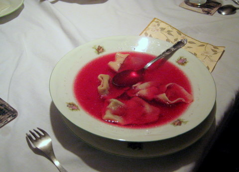 A photo of a "Barszcz z uszkami" (Borscht with uszkas)